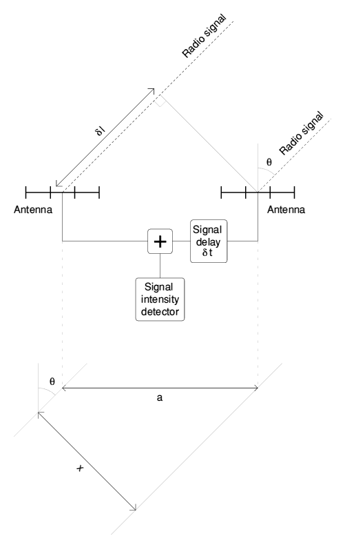 Radio interf